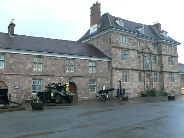 Monmouth Regimental Museum and Great Castle House The museum for the Royal Monmouthshire Royal Engineers which is attached to the Great Castle House, built on the site of Monmouth Castle's Round Tower. The House was built in 1673 by the third Marquis of Worcester.